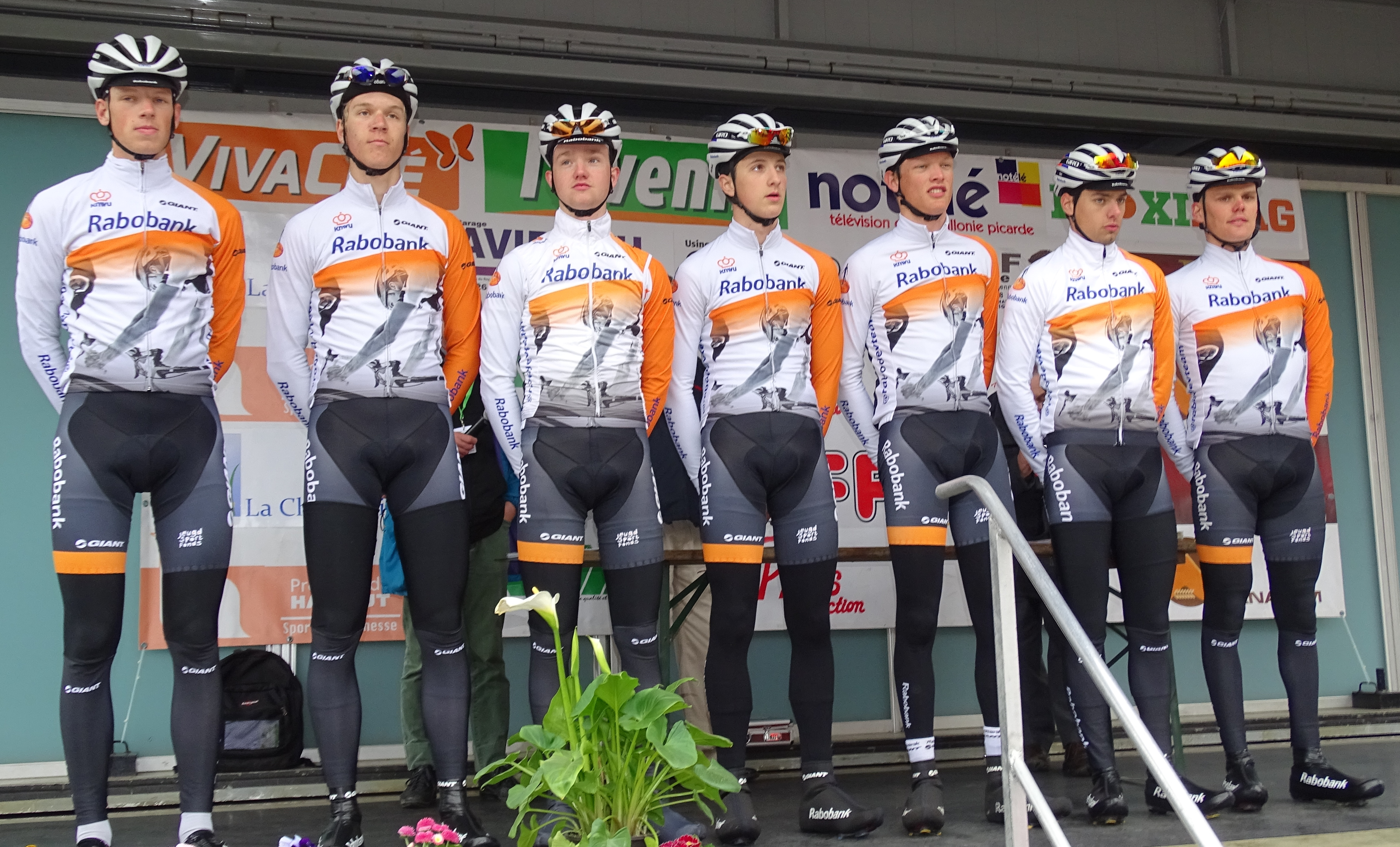 Triptyque des Monts et Châteaux 2015 Depicted team: Rabobank Development